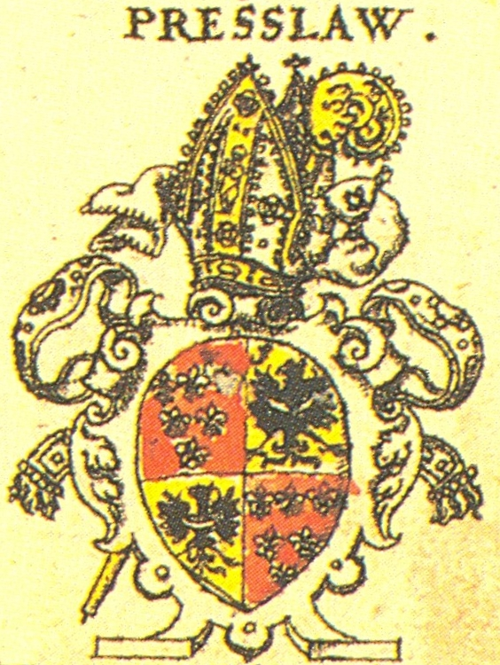 Coat of arms of Wrocław diocese from Siebmachers Wappenbuch